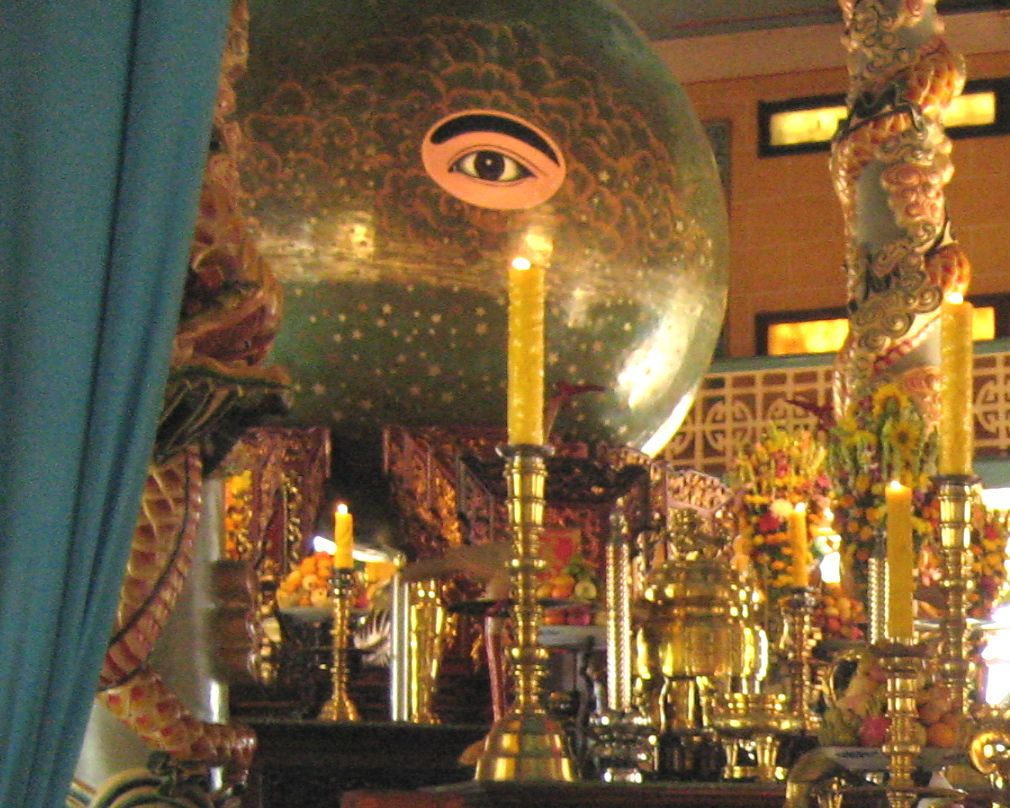 Religious symbol, Cao Dai temple, Tay Ninh, Vietnam